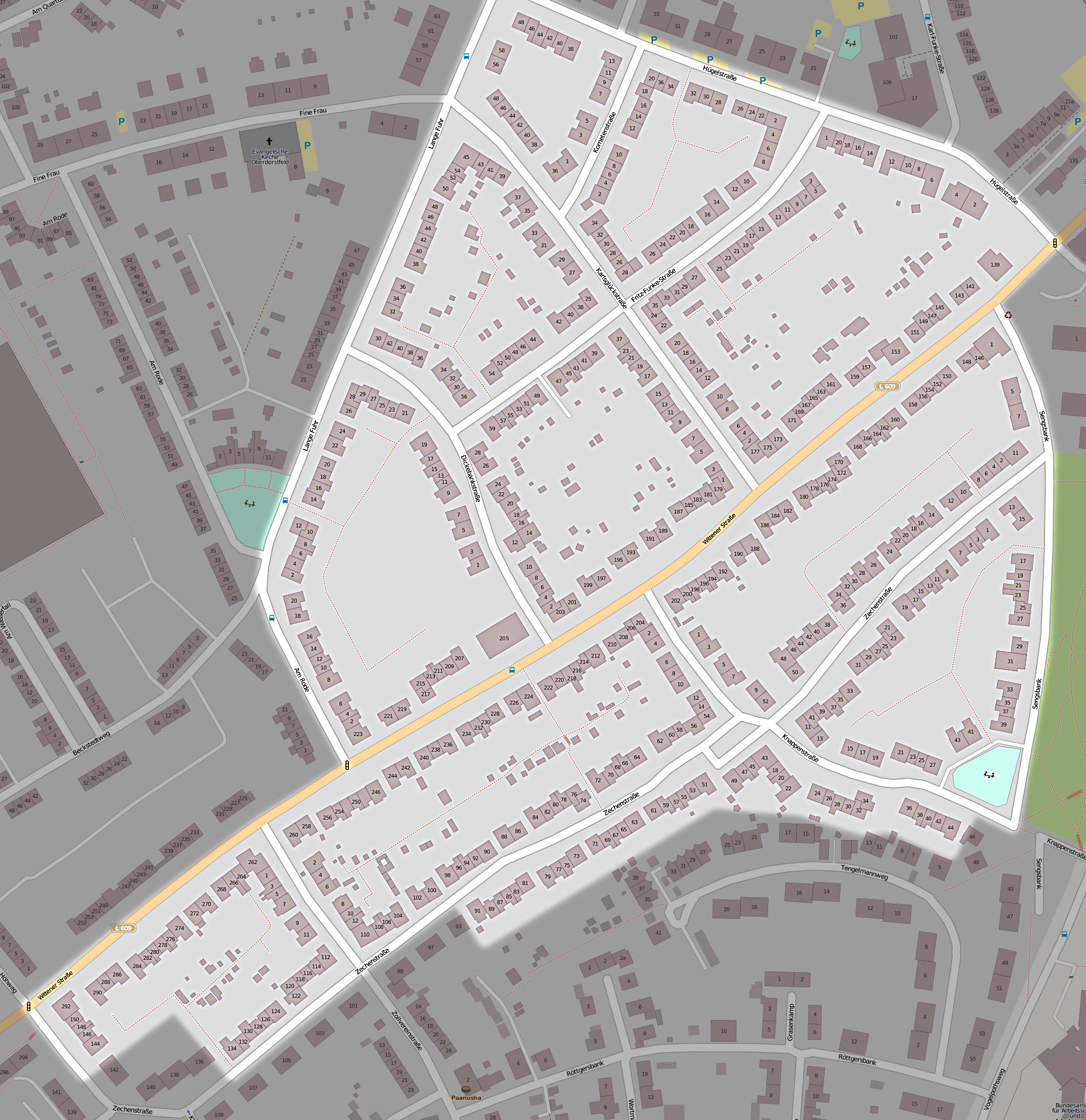 Map of Siedlung Oberdorstfeld. This map may be incomplete, and may contain errors. Don't rely solely on it for navigation.